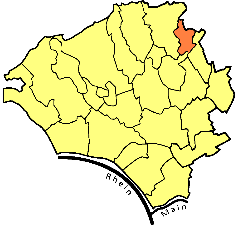 Map of Wiesbaden showing the location of Auringen